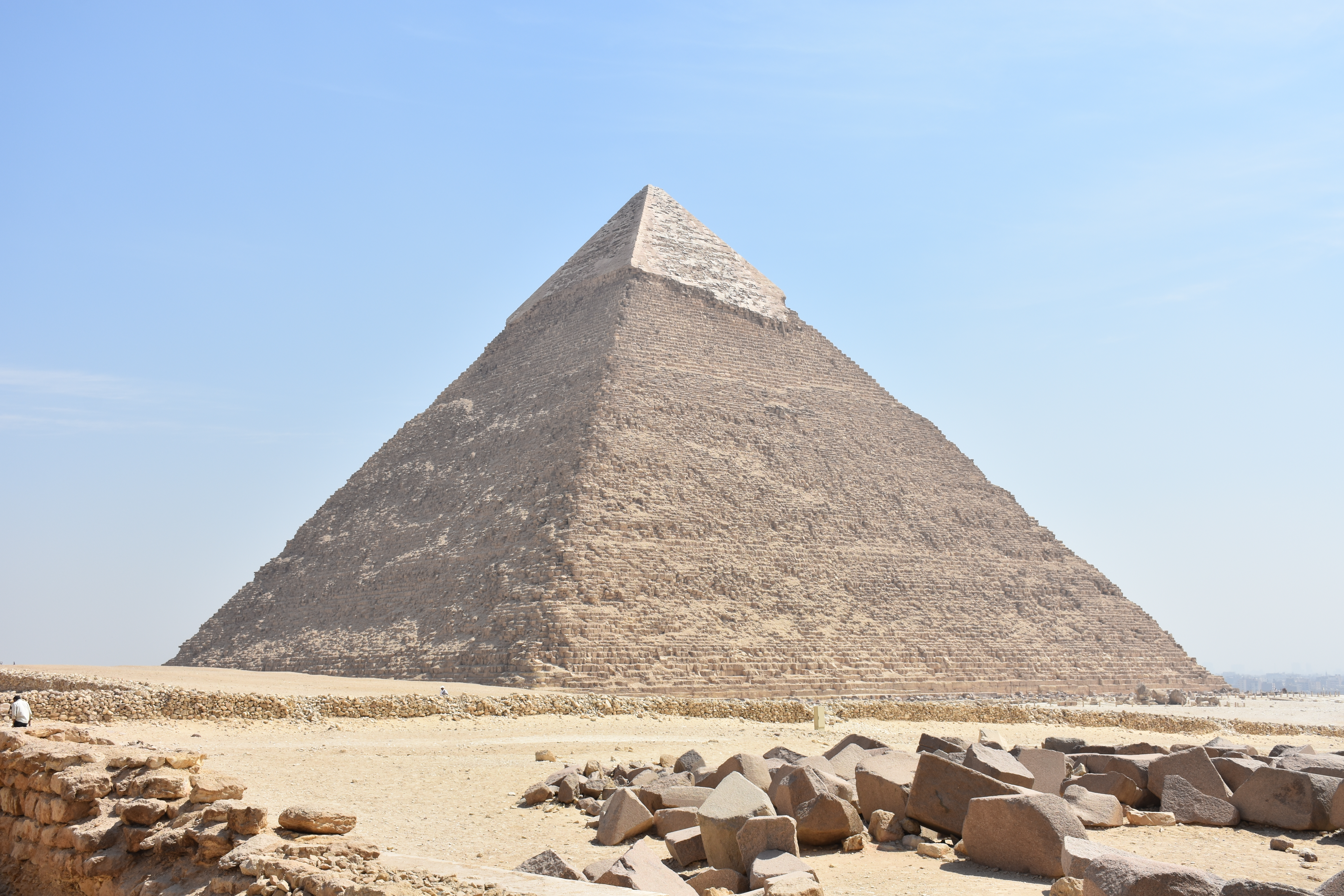 The Pyramid of Khafre in Giza, Egypt in 2015